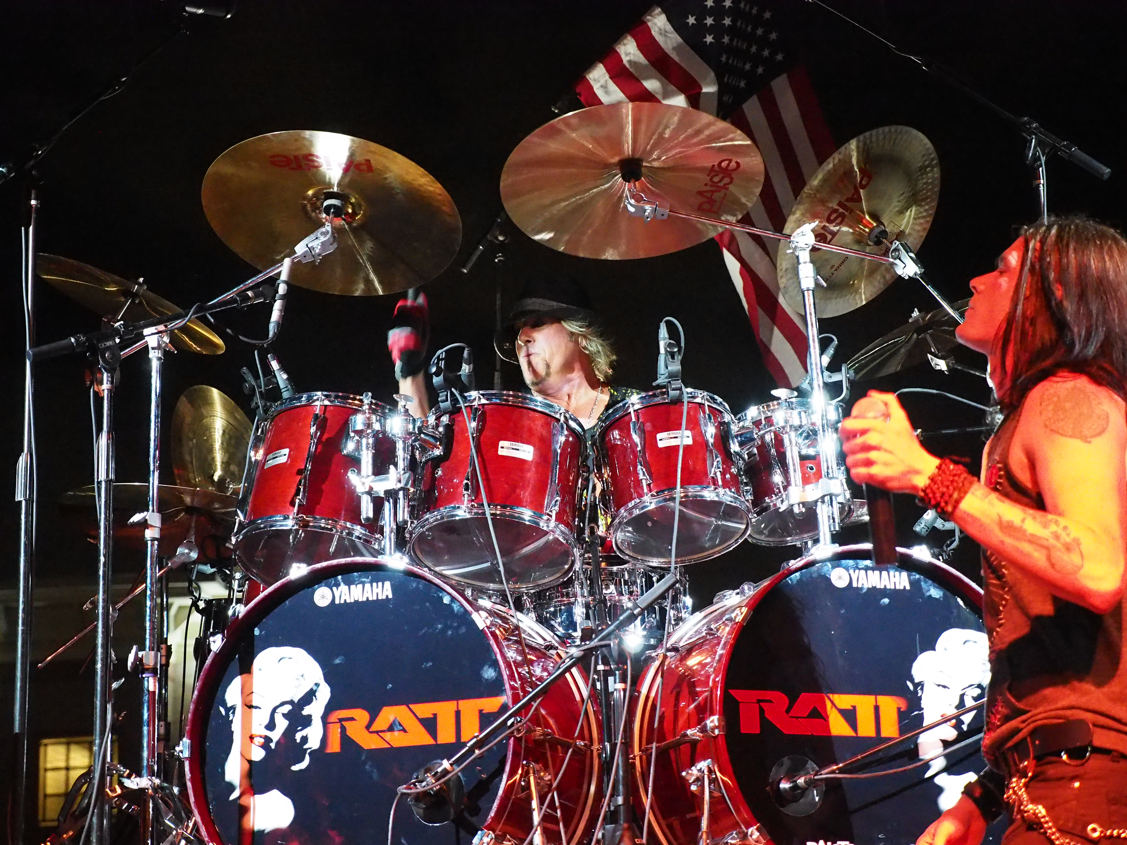 Robert "Bobby" Blotzer performing with RATT in Houston October 12, 2016.